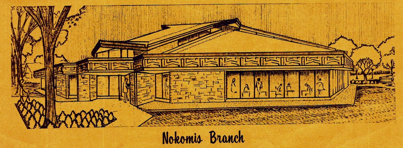 A shot of what Nokomis Community Library (Minneapolis, MN) was to look like, from a 1968 brochure.